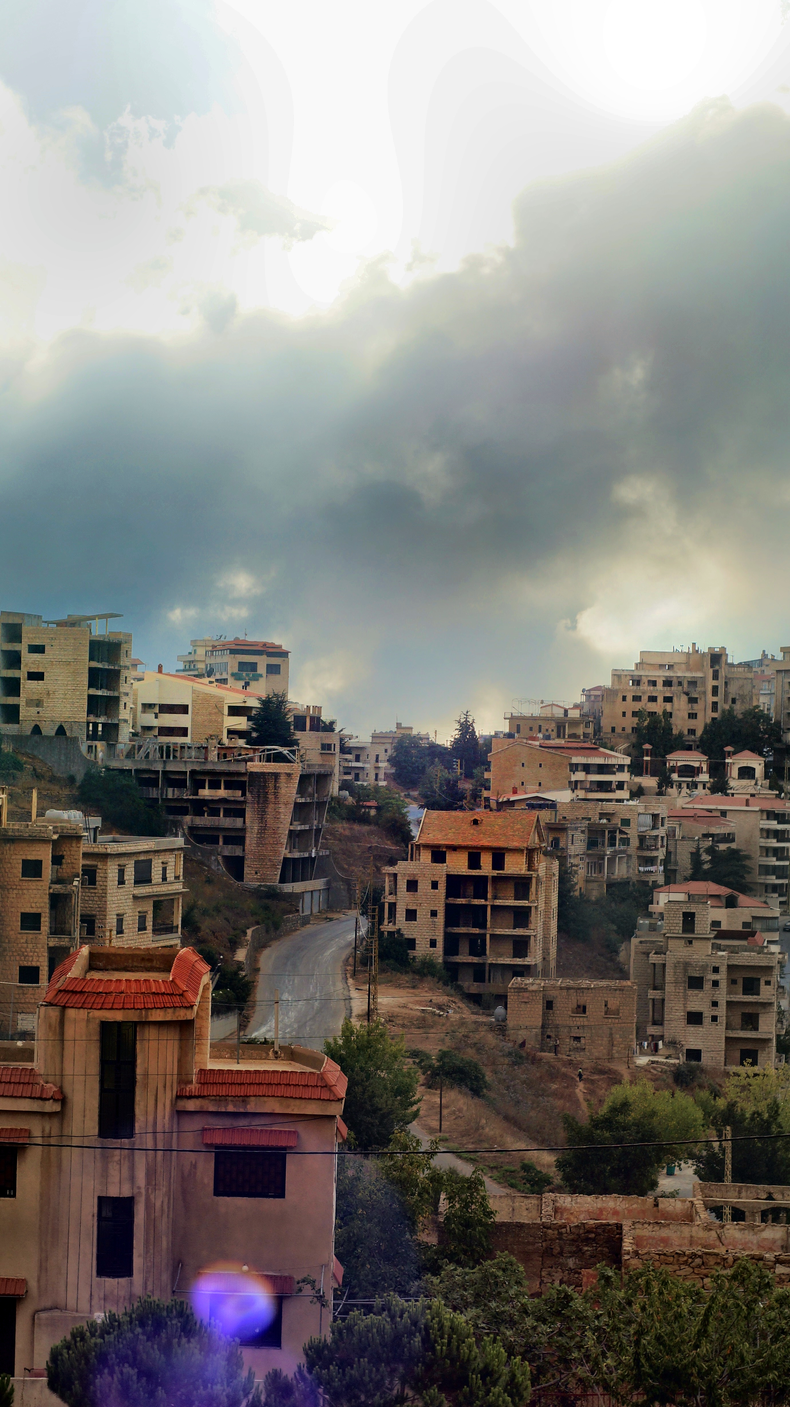 the big eagle-cloud over Bhamdoun- Close to sunset - Bhamndoun